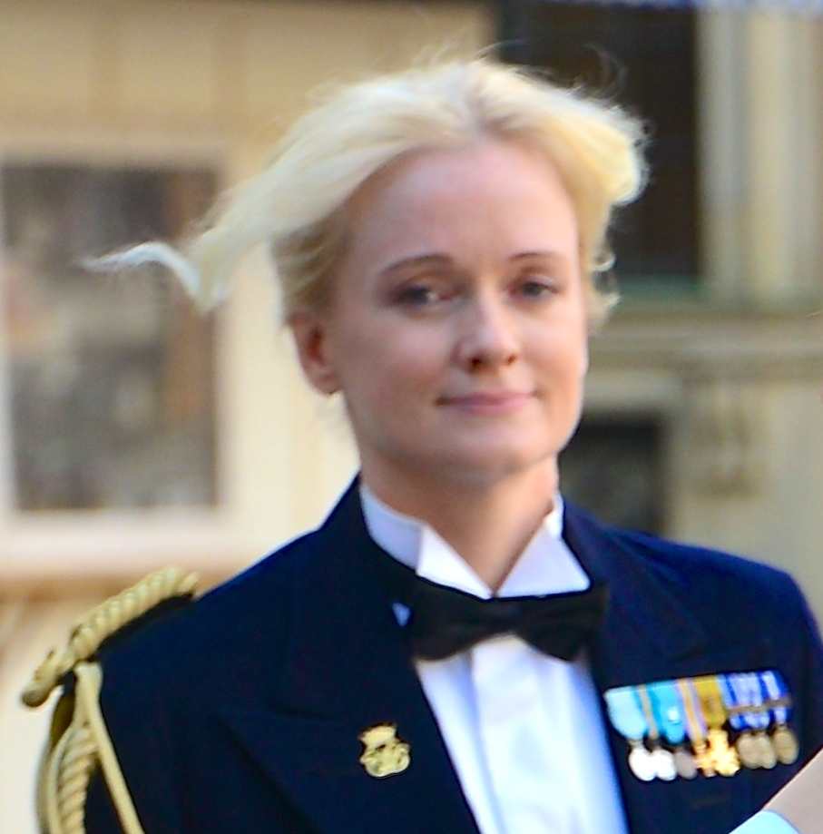 Lena Persson Herlitz, ADC to H.R.H. Crown Princess Victoria.